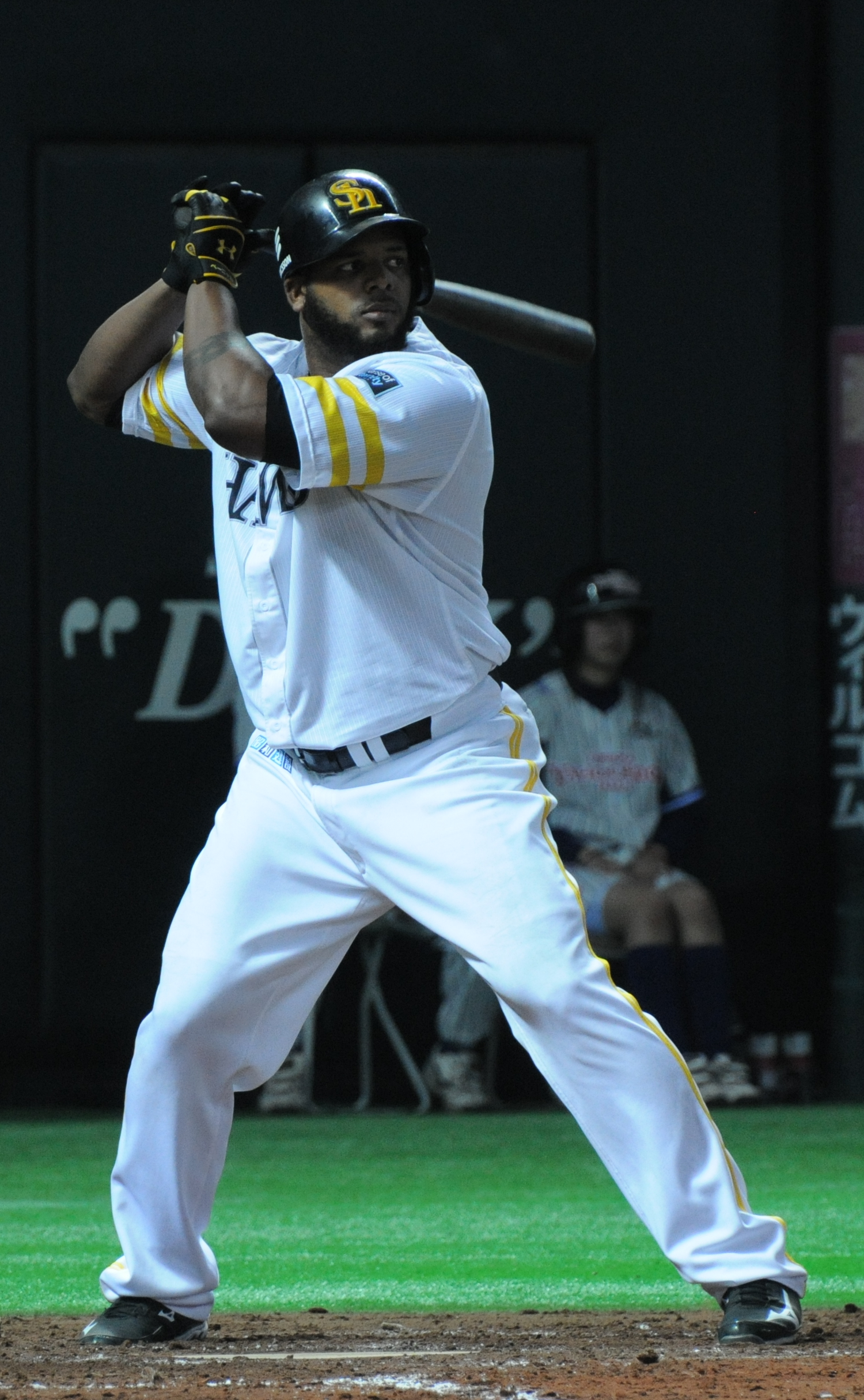 Wily Mo Peña, outfielder of the Fukuoka SoftBank Hawks, at Fukuoka Dome.